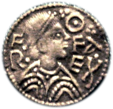 Offa_king_of_Mercia_757_793_silver_penny